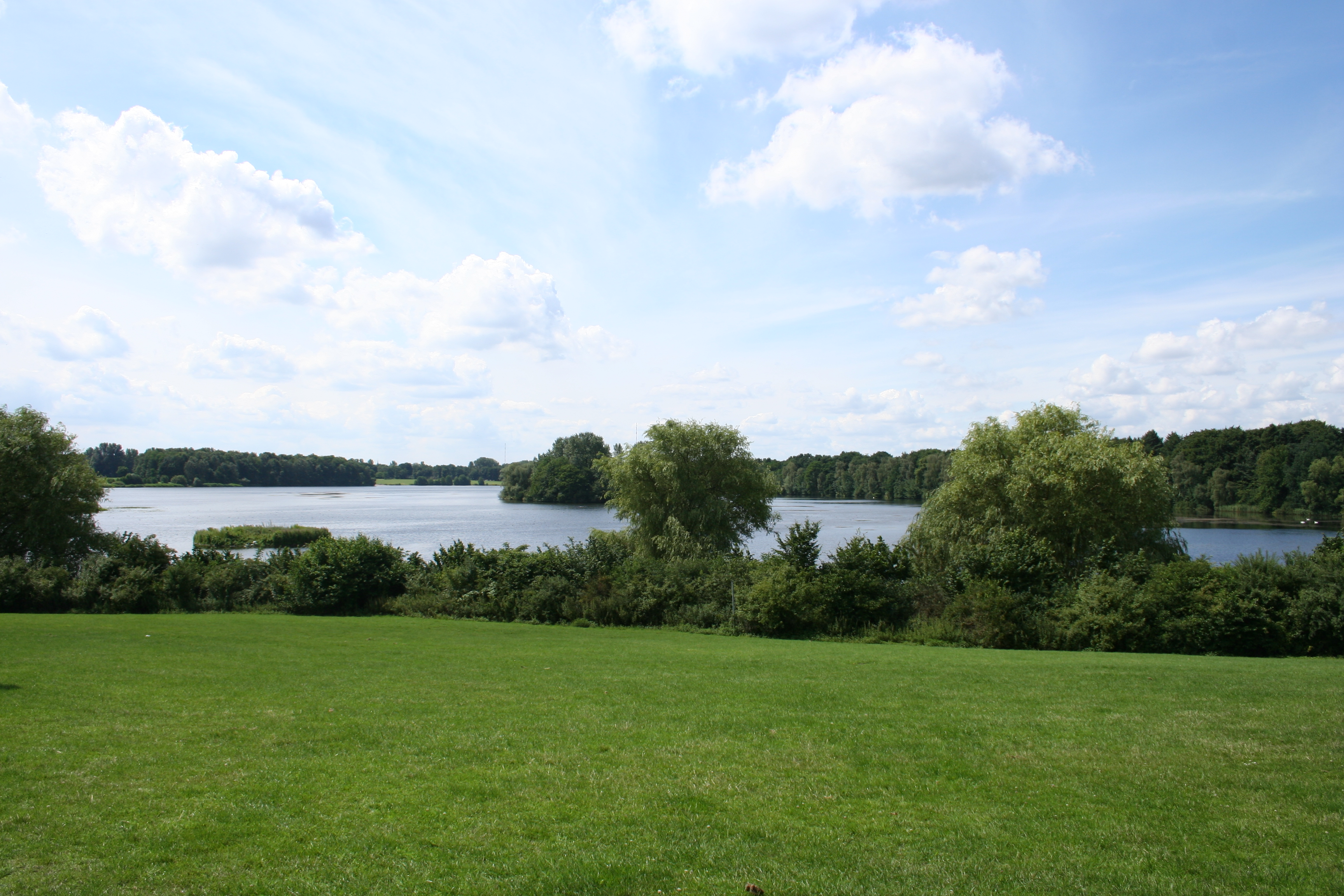 Lake Oejendorf